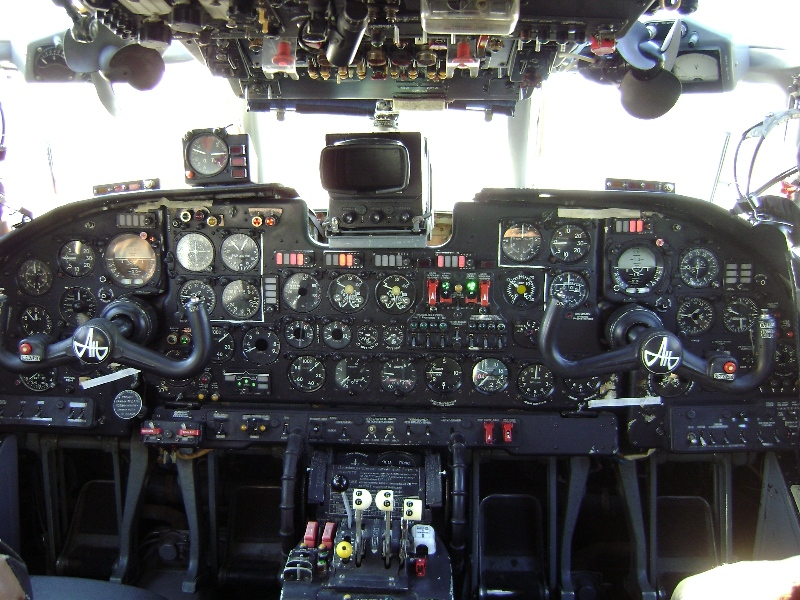 Antonow An-26 Cockpit